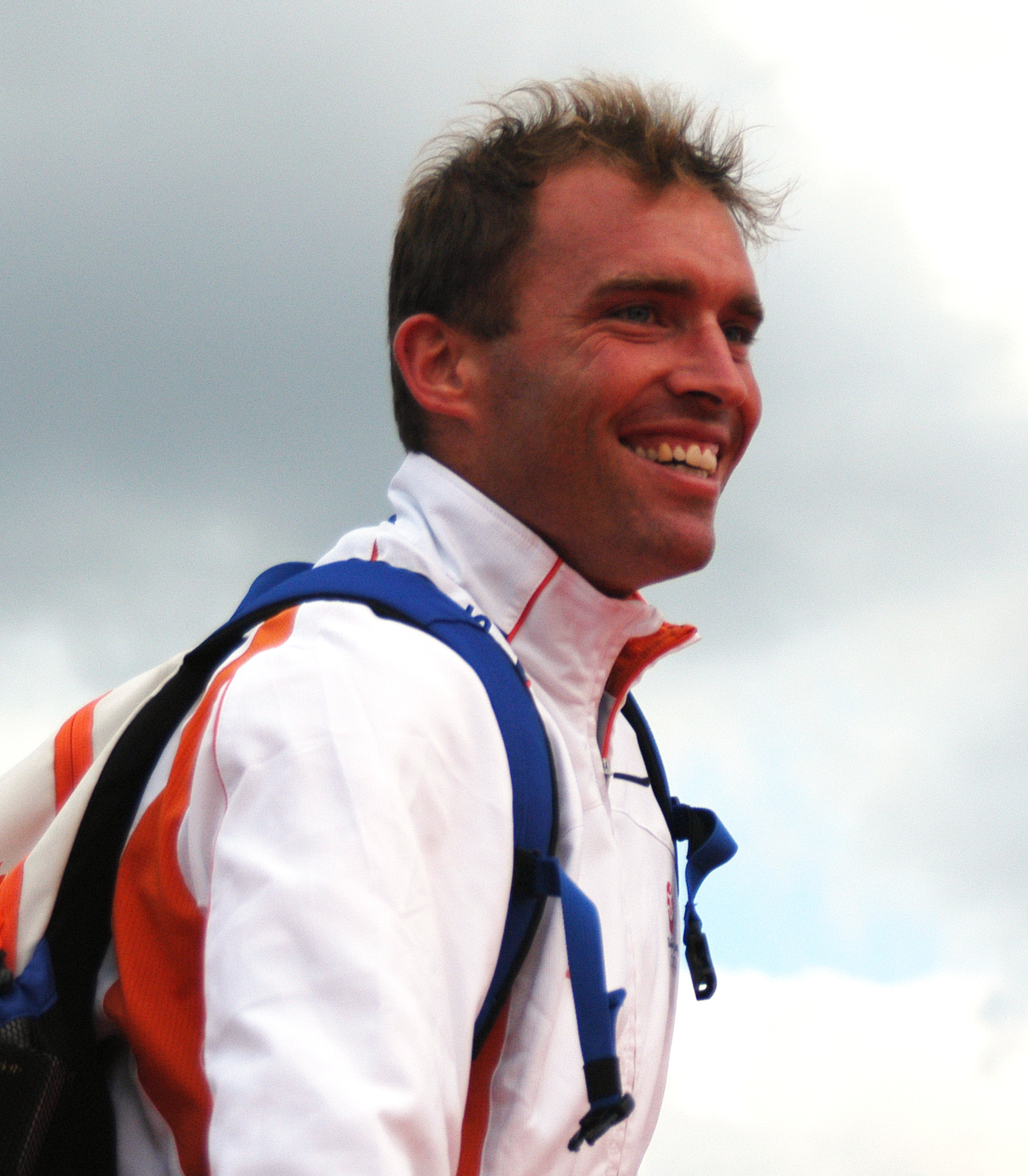 Jeroen Delmee at the Olympic welcome in the Olympic Stadium in Amsterdam, the Netherlands